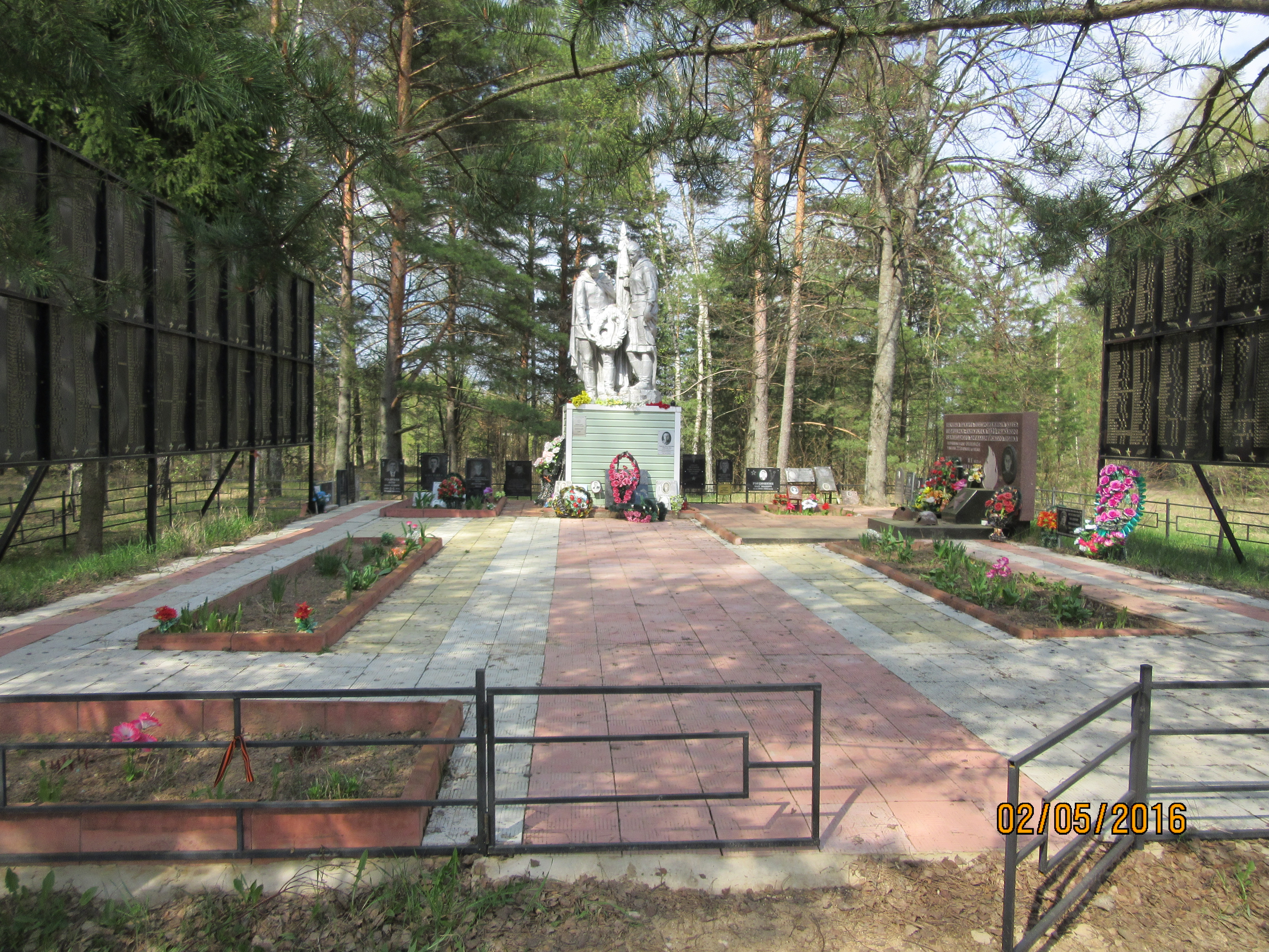 C. Lazenki. Mass grave